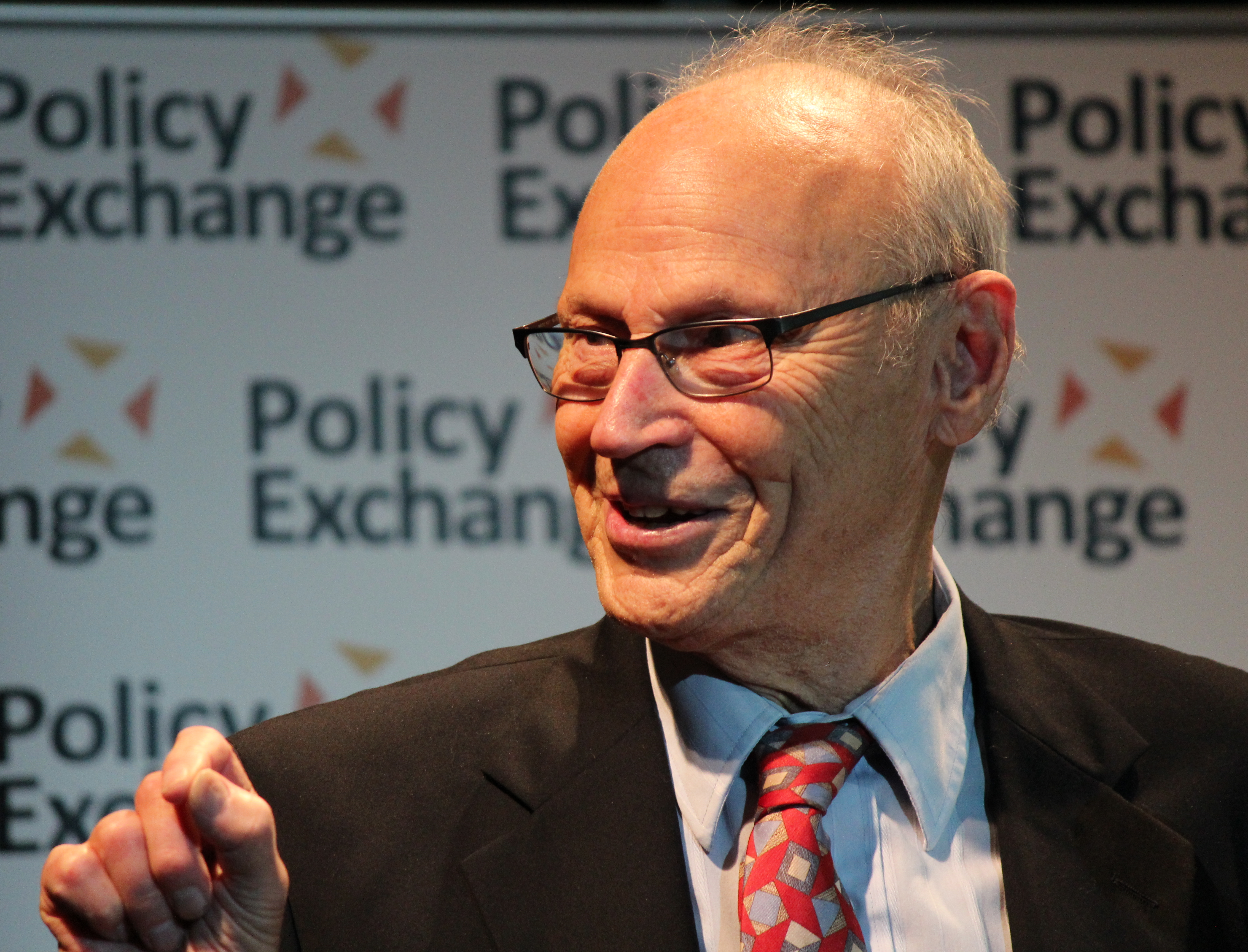 American education academic E. D. Hirsch delivers his speech at the second annual Policy Exchange Education Lecture at Pimlico Academy, London.